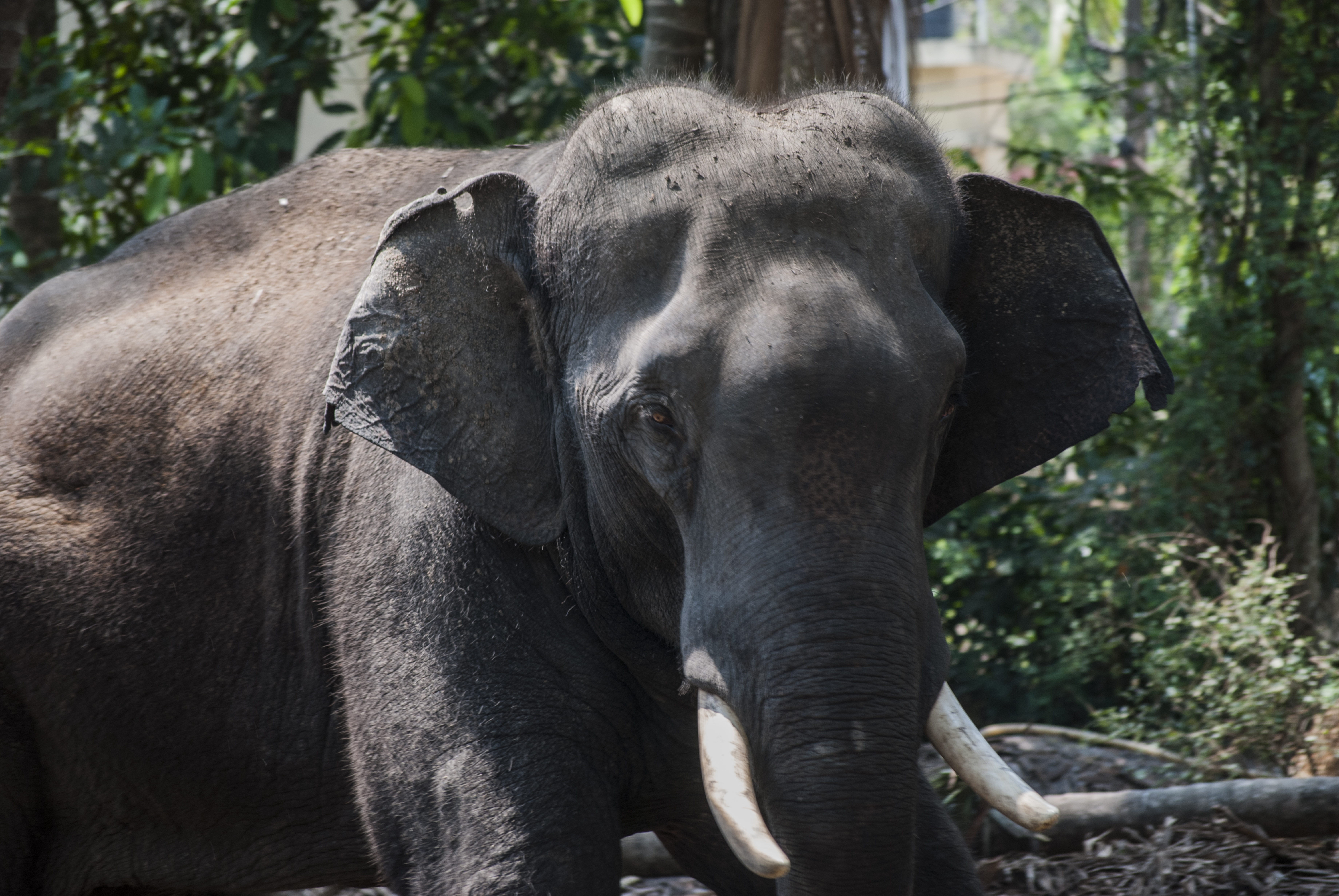 Closeup of a Domesticated Asian Elephants in Kerala India